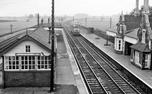 Brocklesby Station. View NE, towards (lines bearing left) Ulceby and Immingham Dock/New Holland, (lines to right) Grimsby and Cleethorpes; ex-Great Central main lines from Doncaster/Sheffield/Lincoln via Barnetby. Brocklesby station was unusual in that it was not closed until quite recently (4/10/93).